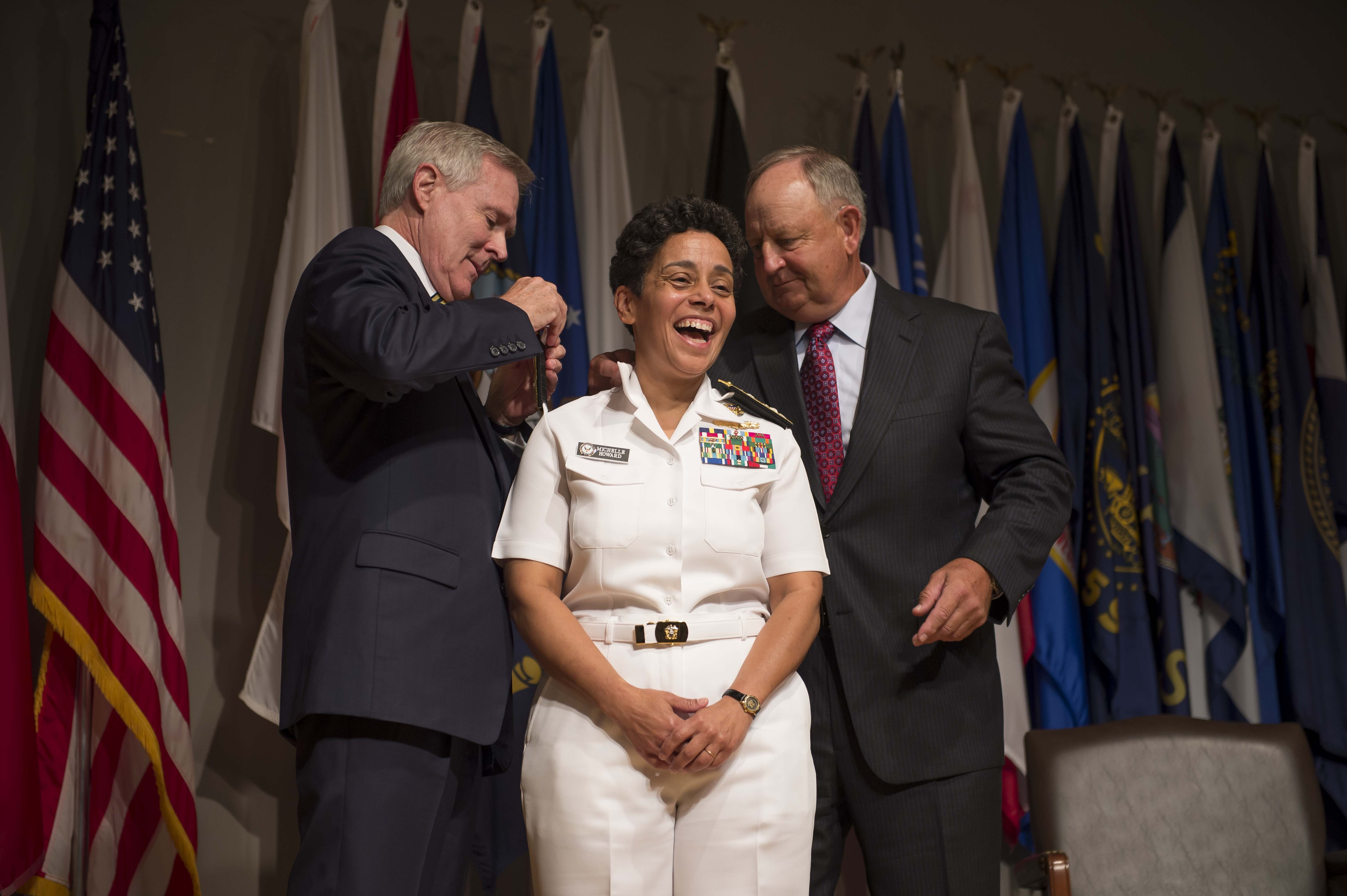 Secretary of the Navy Ray Mabus, left, and Wayne Cowles, husband of Adm. Michelle Howard, put four-star shoulder boards on Howard's service white uniform during her promotion ceremony at the Women in Military Service for America Memorial. Howard is the first woman to be promoted to the rank of admiral in the history of the Navy and will assume the duties and responsibilities as the 38th Vice Chief of Naval Operations from Adm. Mark Ferguson. (U.S. Navy photo by Chief Mass Communication Specialist Peter D. Lawlor/Released)